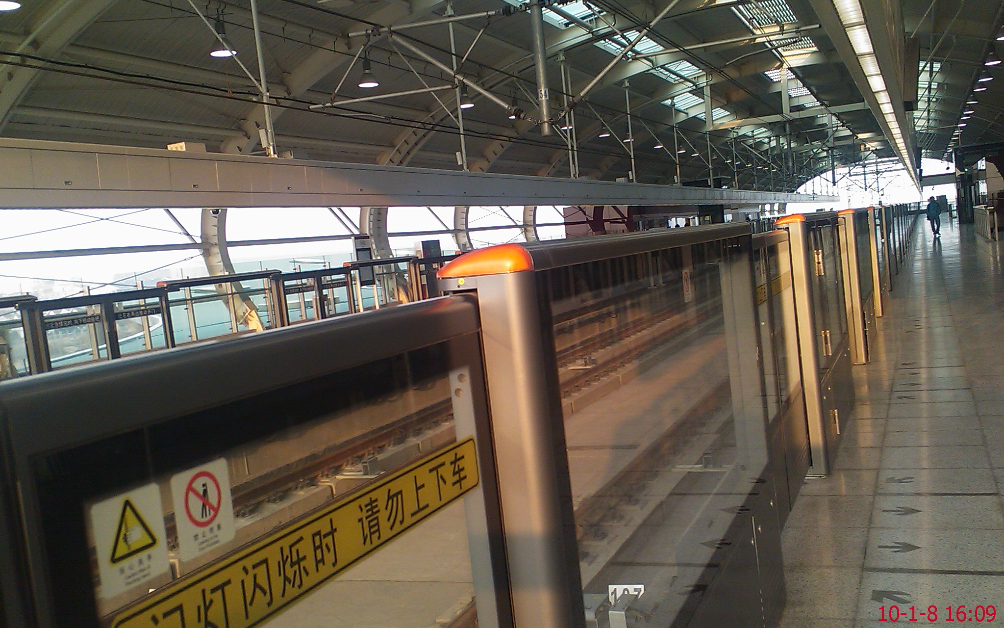 Inside Malu Station of Shanghai Metro Line 11